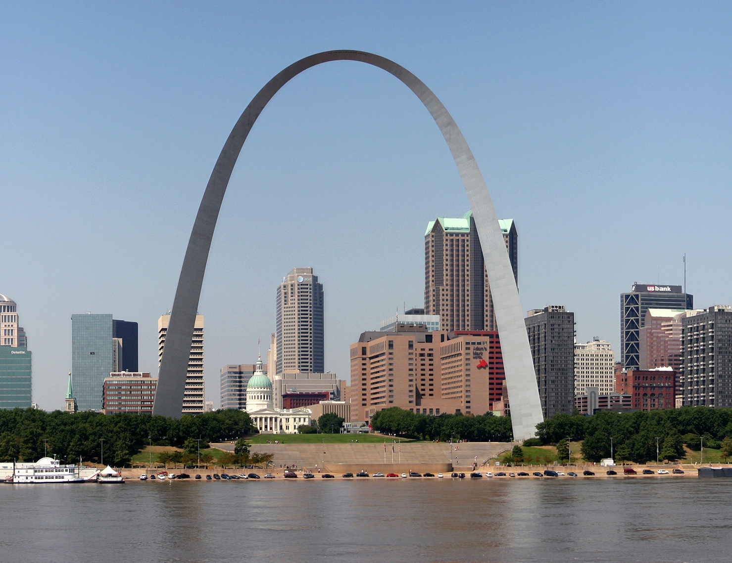 Gateway Arch in St. Louis